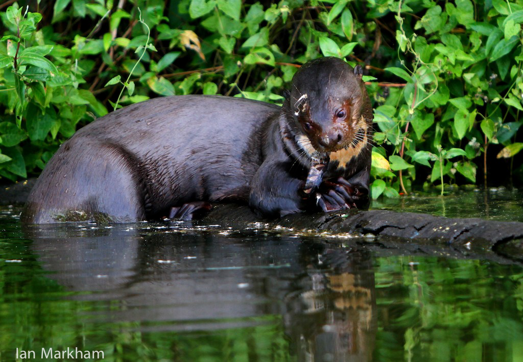 Giant River Otter eating fish